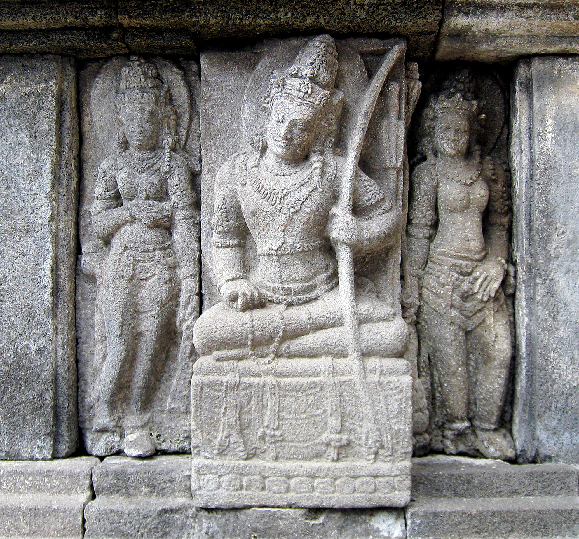 A male Hindu deity flanked on either sides by two female deities. These figures is probably devata and apsaras, the celestial maiden. The relief panel on the wall of Vishnu temple, Prambanan, Java, Indonesia.